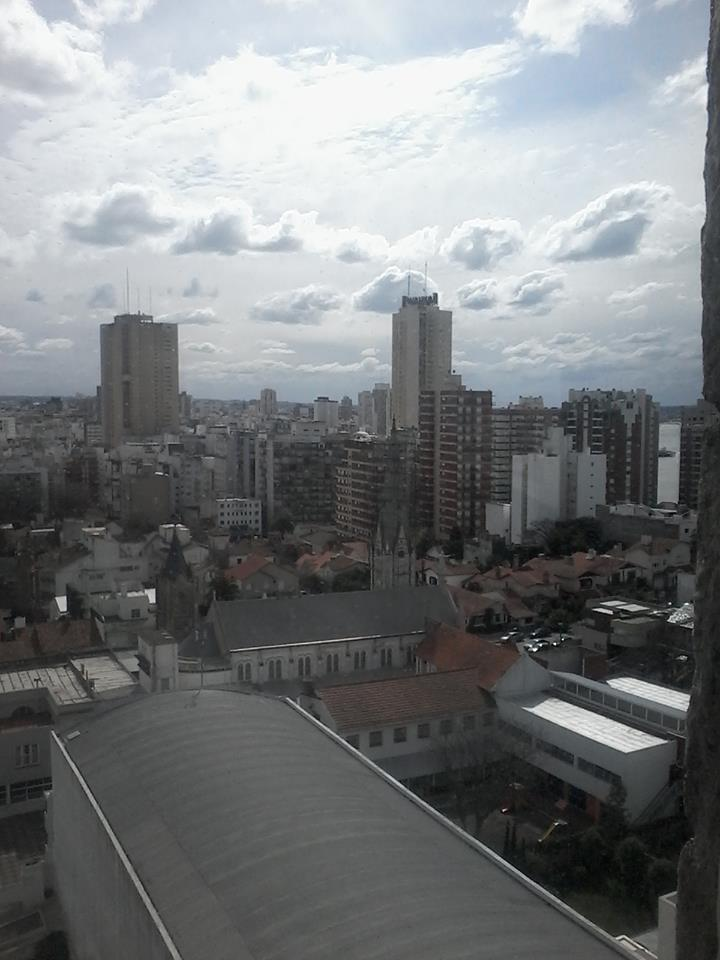 Vista de la Habana desde la Torre Tanque